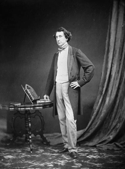 Hon. John A. Macdonald, Attorney General, Canada West